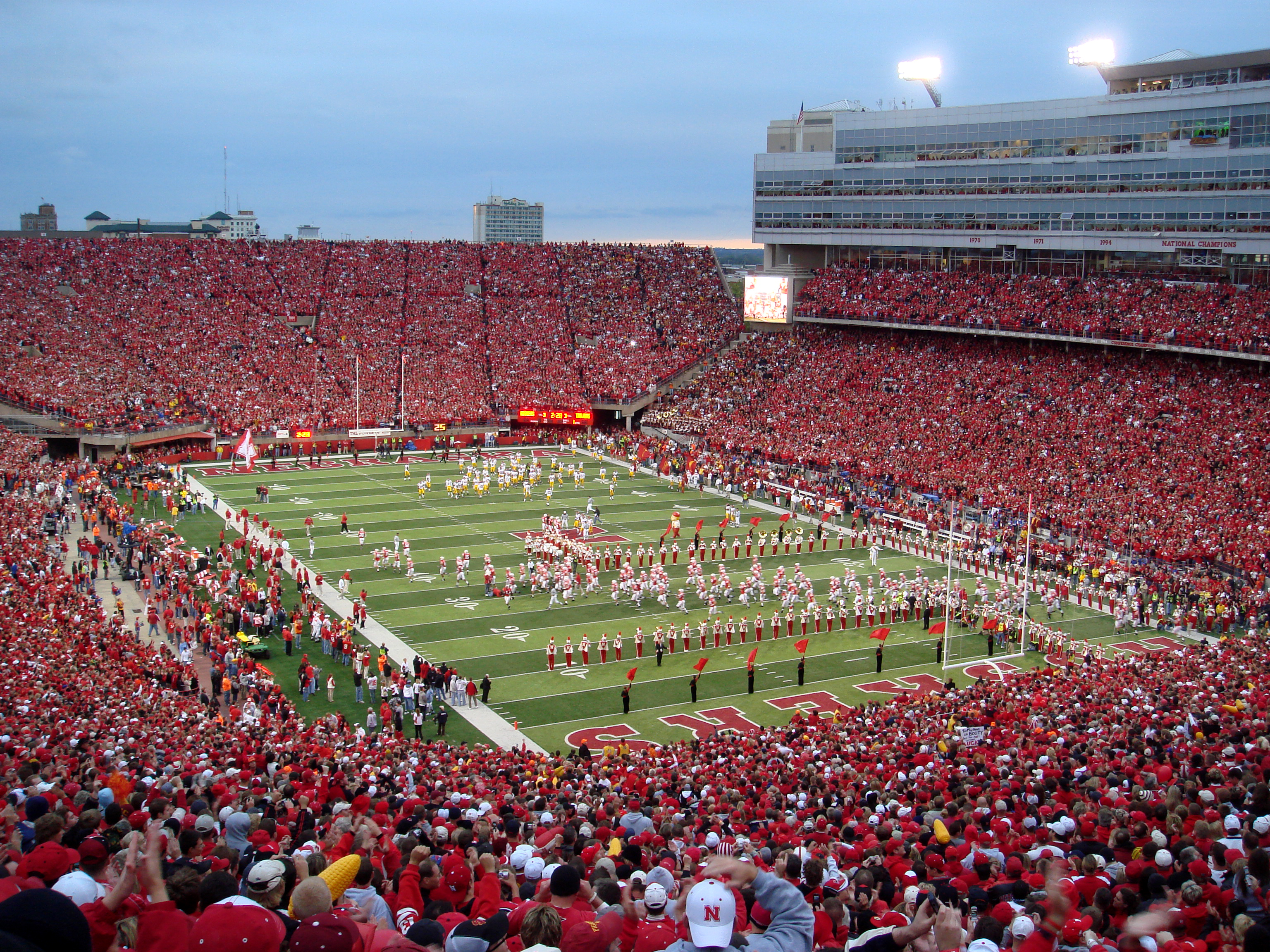 Memorial Stadium in Lincoln, Nebraska: home of the Nebraska Cornhuskers football team. On September 15, 2007 the then-#14 ranked Cornhuskers hosted the #1 ranked USC Trojans in the game of the week. Before 84,949, the Trojans felled the Huskers 49-31. This photo is of the pre-game entrance of the two teams.